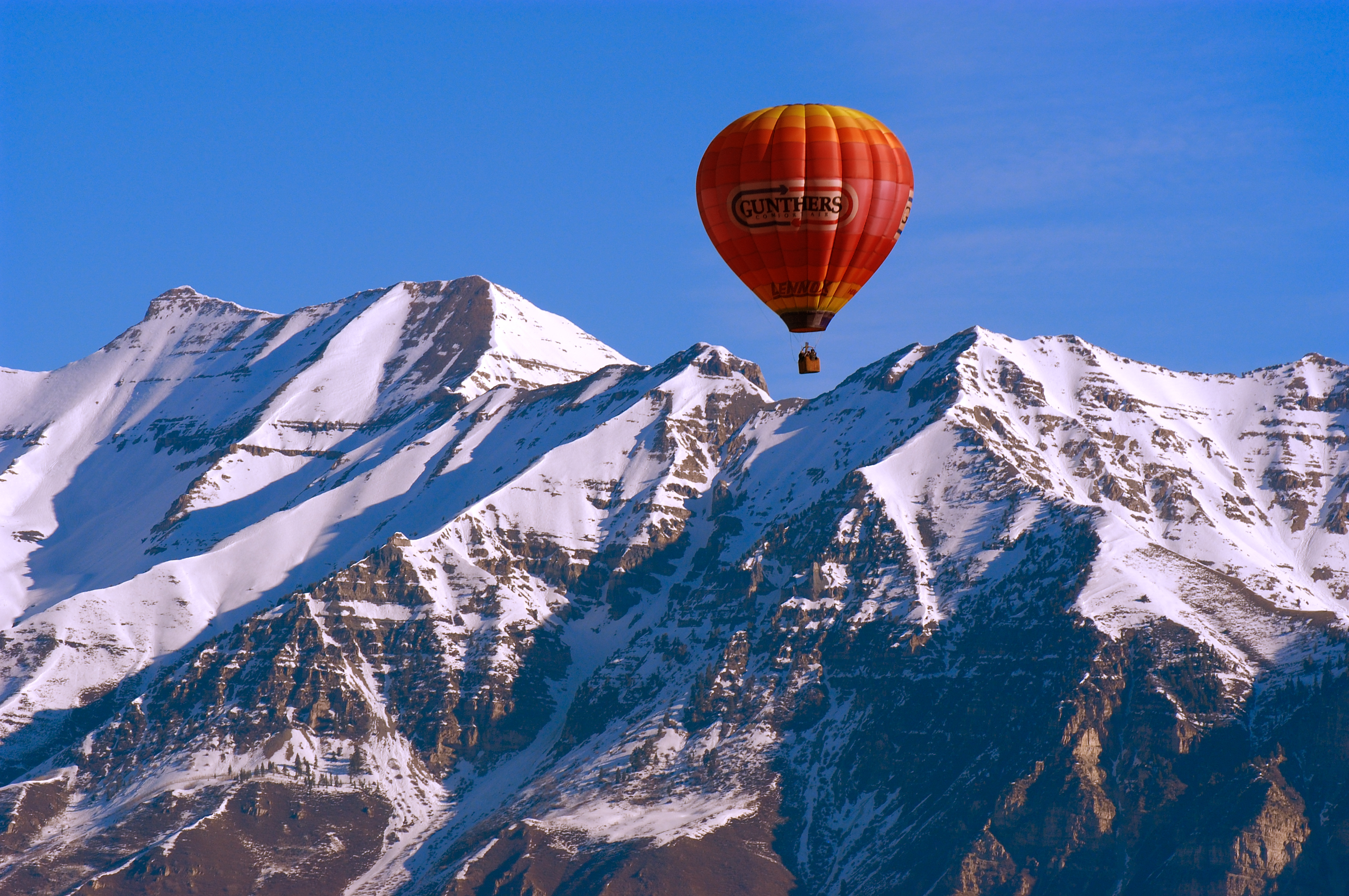 Mount Timpanogos. This is the scenic view from my balcony. I've created a set of my daily balcony shots here.